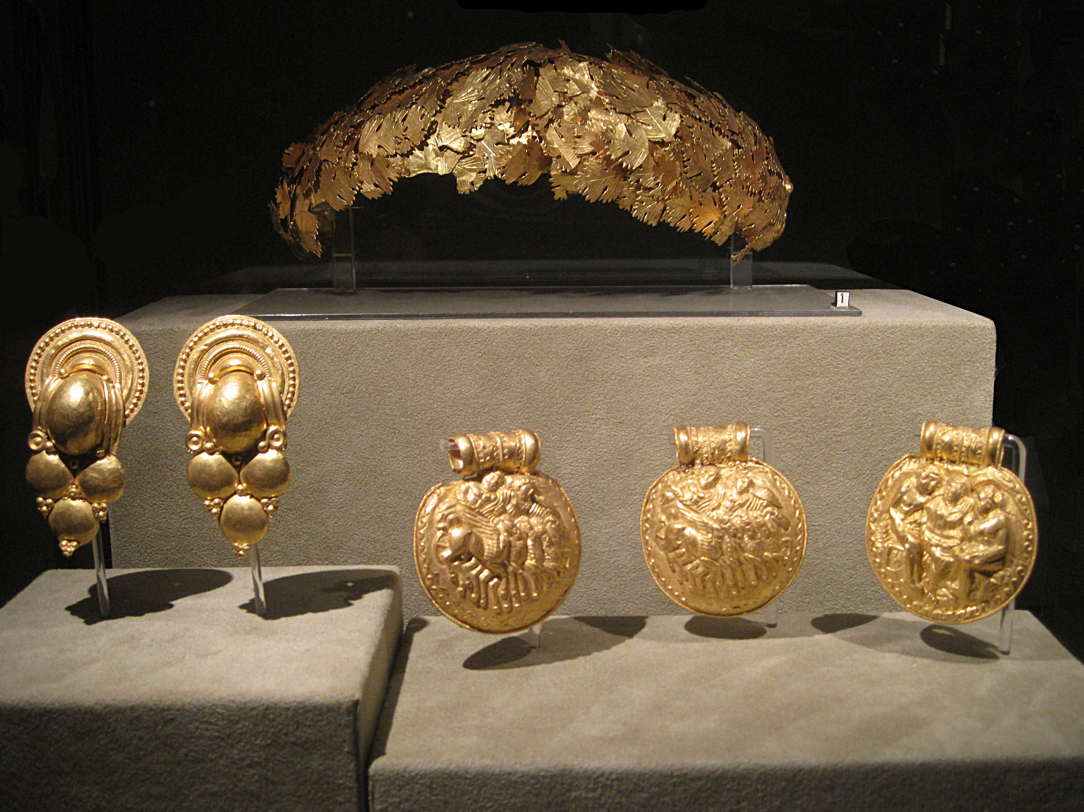 Crown and Etruscan gold jewelry discovered in the necropolis of Vulci Camposcola - Gregorian Etruscan Museum (Vatican Museums).